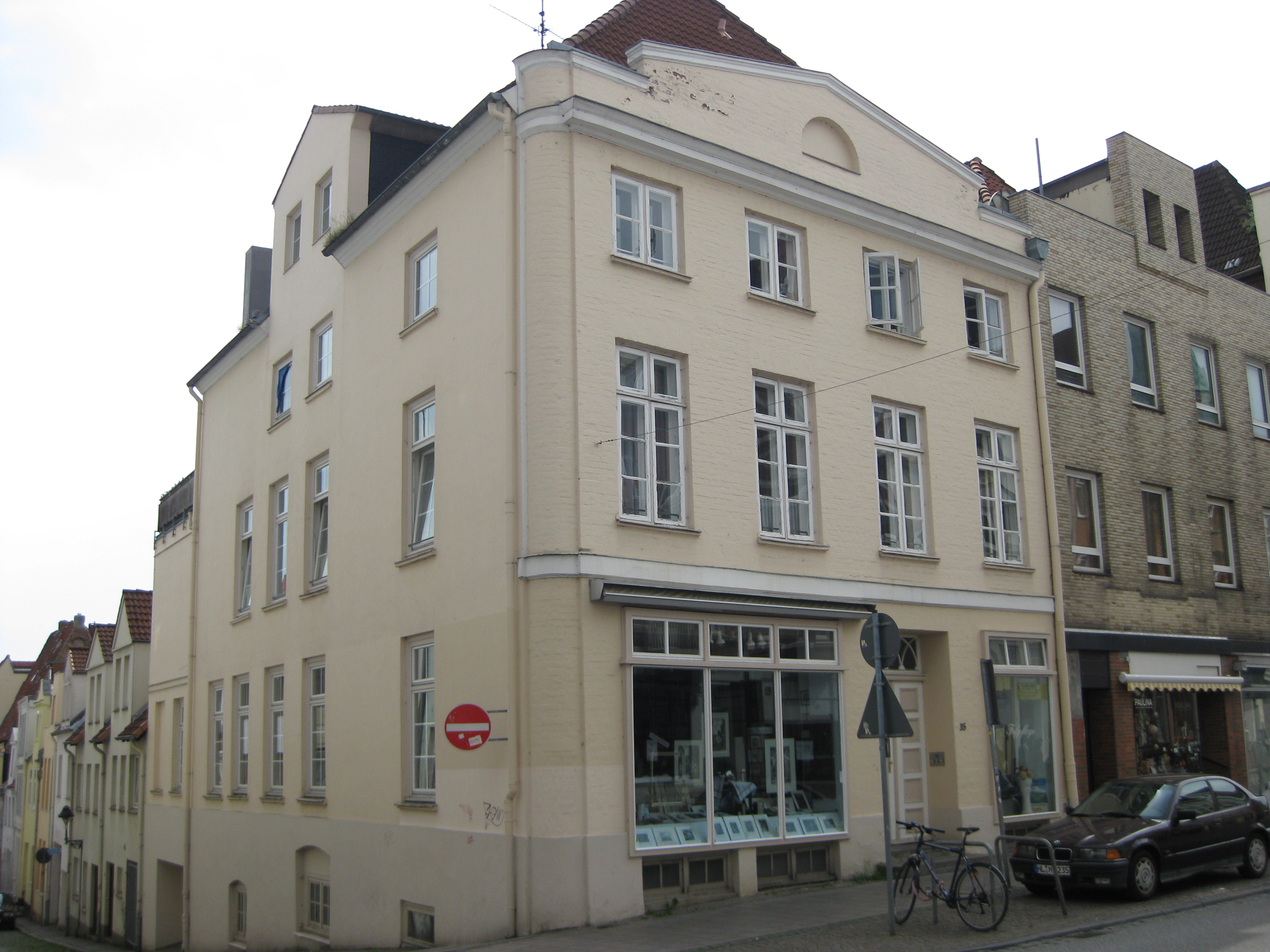 Shop in Lübecks old town, Große Burgstraße, Ecke Kleine Gröpelgrube.